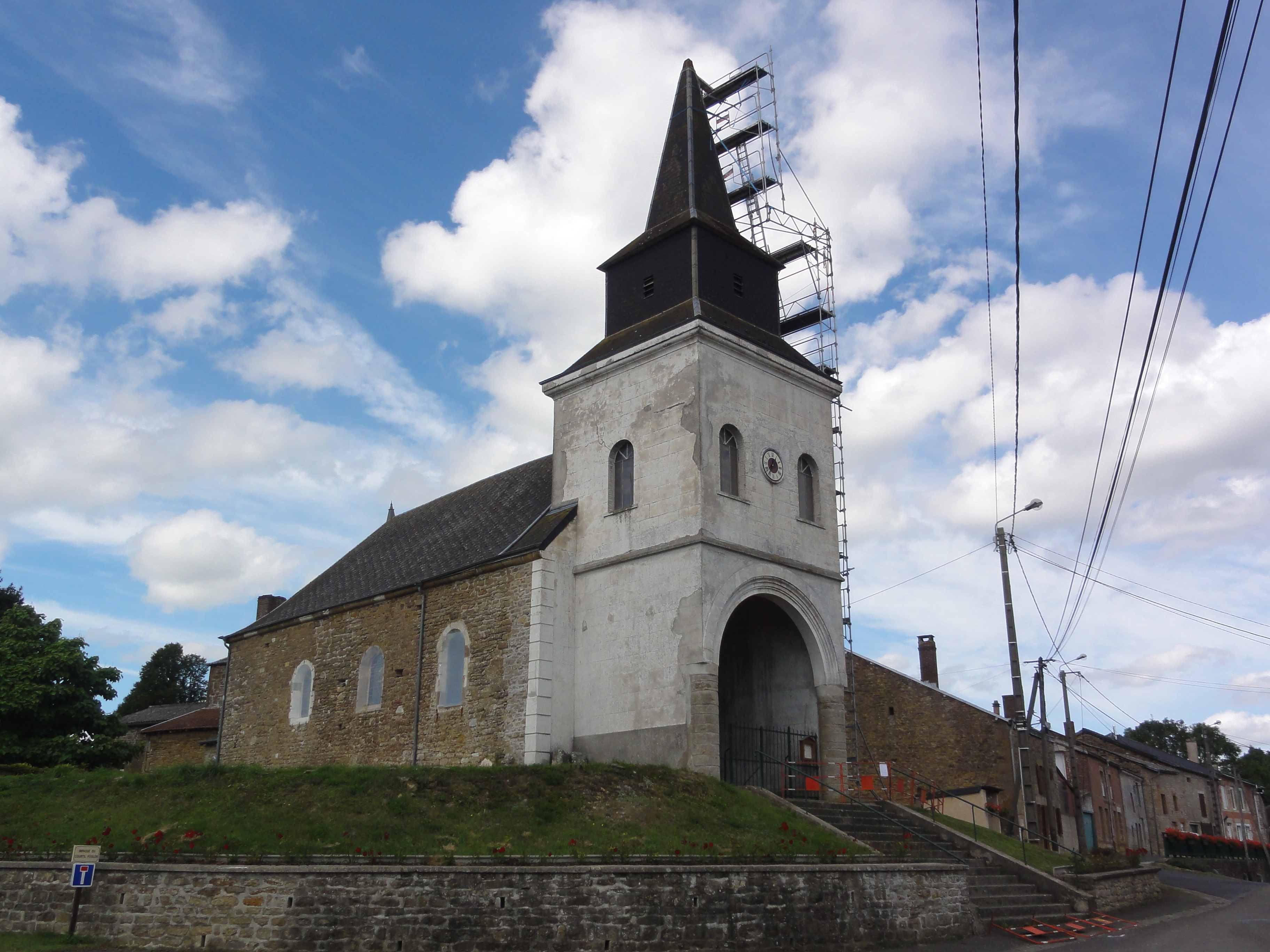 Chilly (Ardennes) église